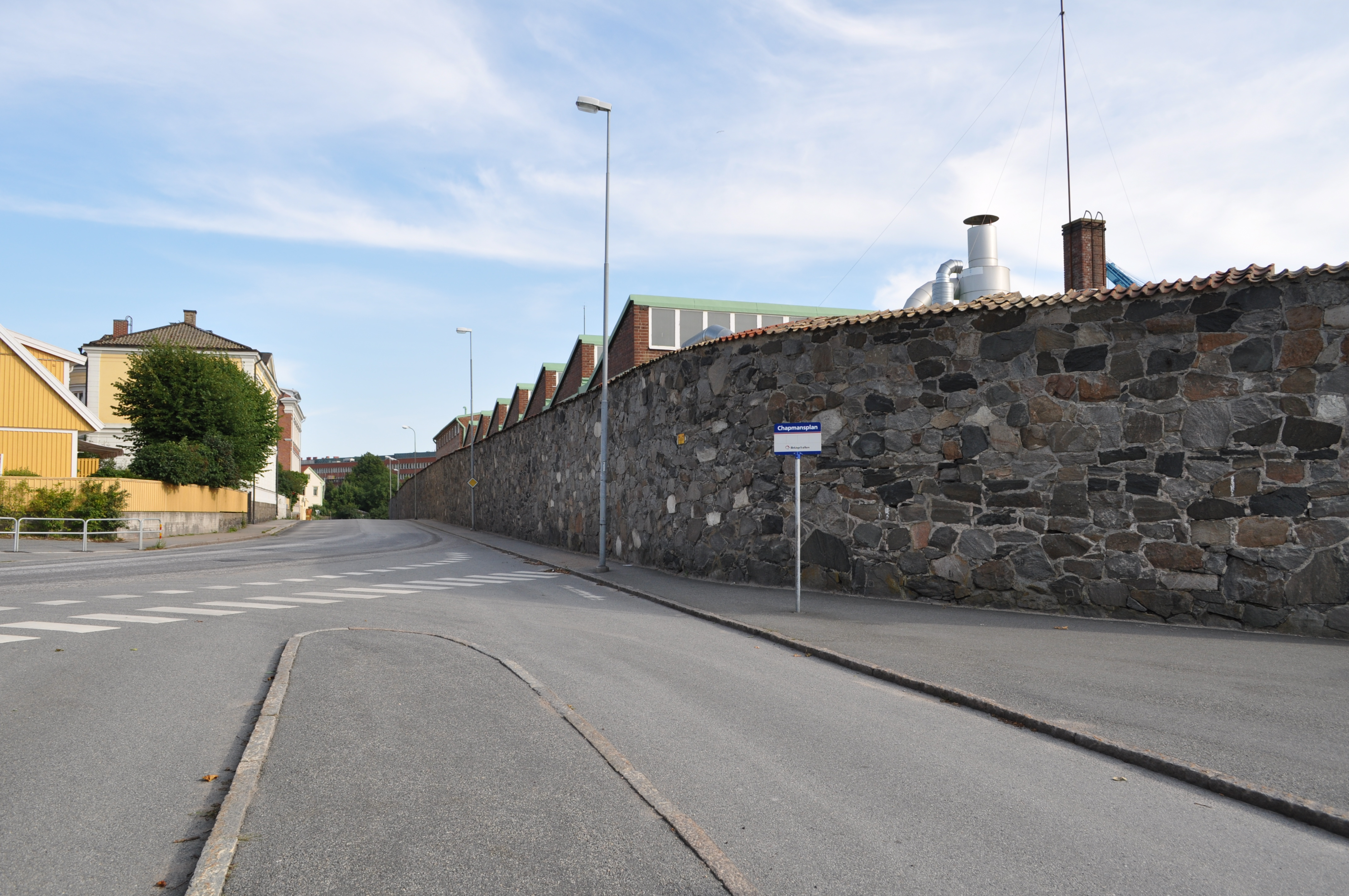 The stonewall of Karlskrona shipyard - Chapmansplan